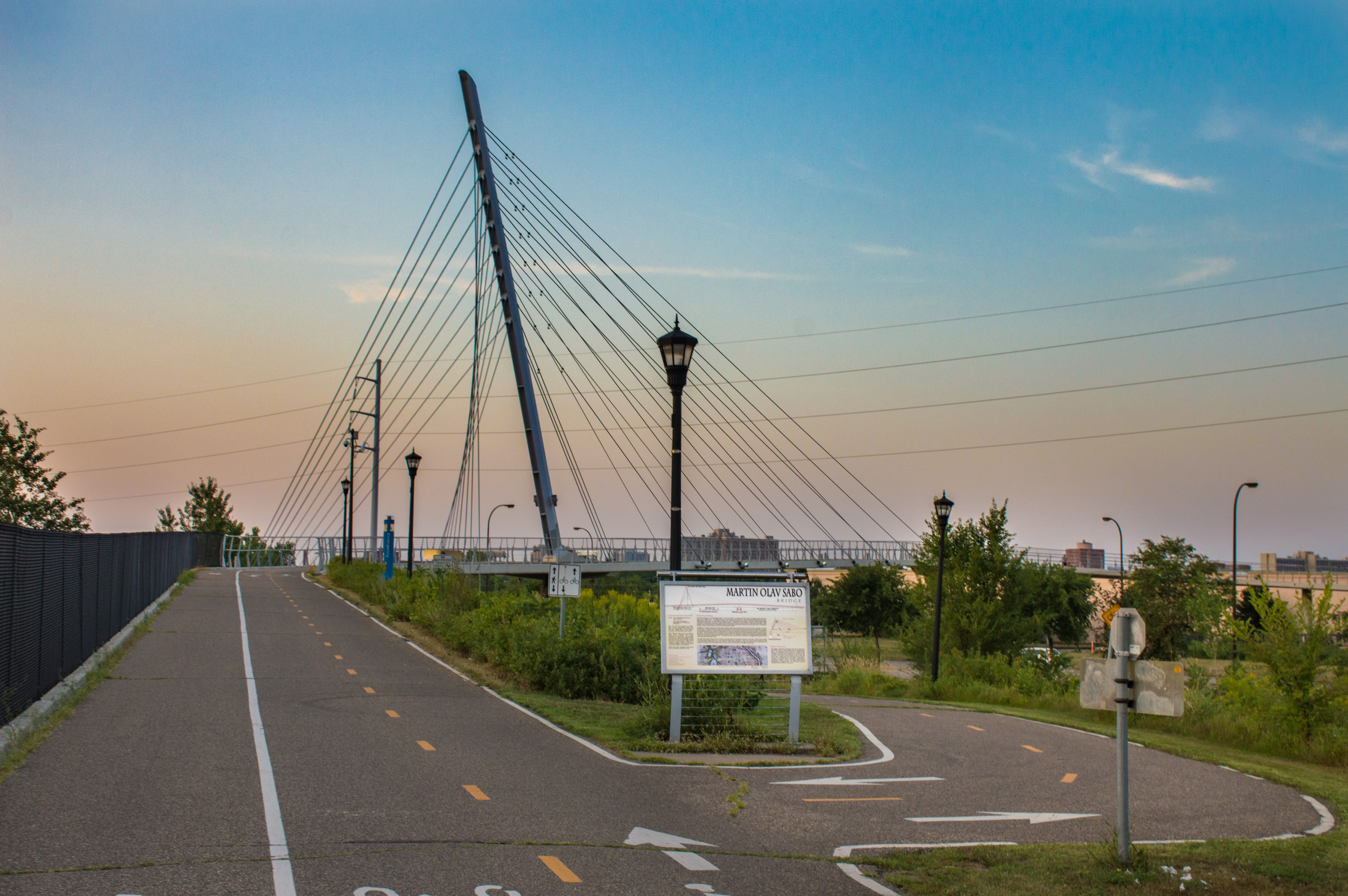 Midtown Greenway approaching the Martin Olav Sabo bridge